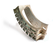 Cnc-nichols